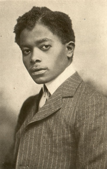 Ali bin Hamud of Zanzibar, the eighth Sultan of Zanzibar, by Elliot and Fry, c. 1907